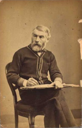 Niels Frederik Martin Rohde (1816-1886), Danish landscape painter